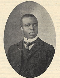 portrait of Scott Joplin